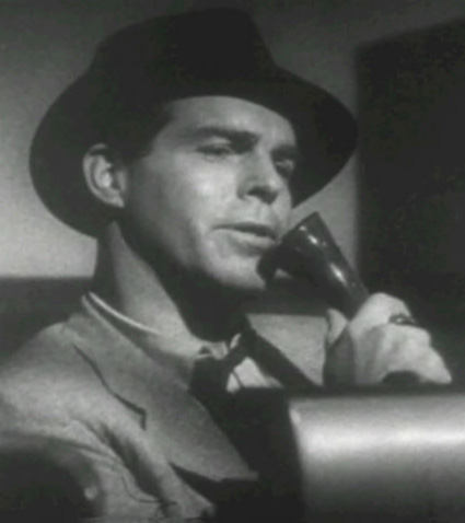 Cropped screenshot of Fred MacMurray from the trailer for the film Double Indemnity